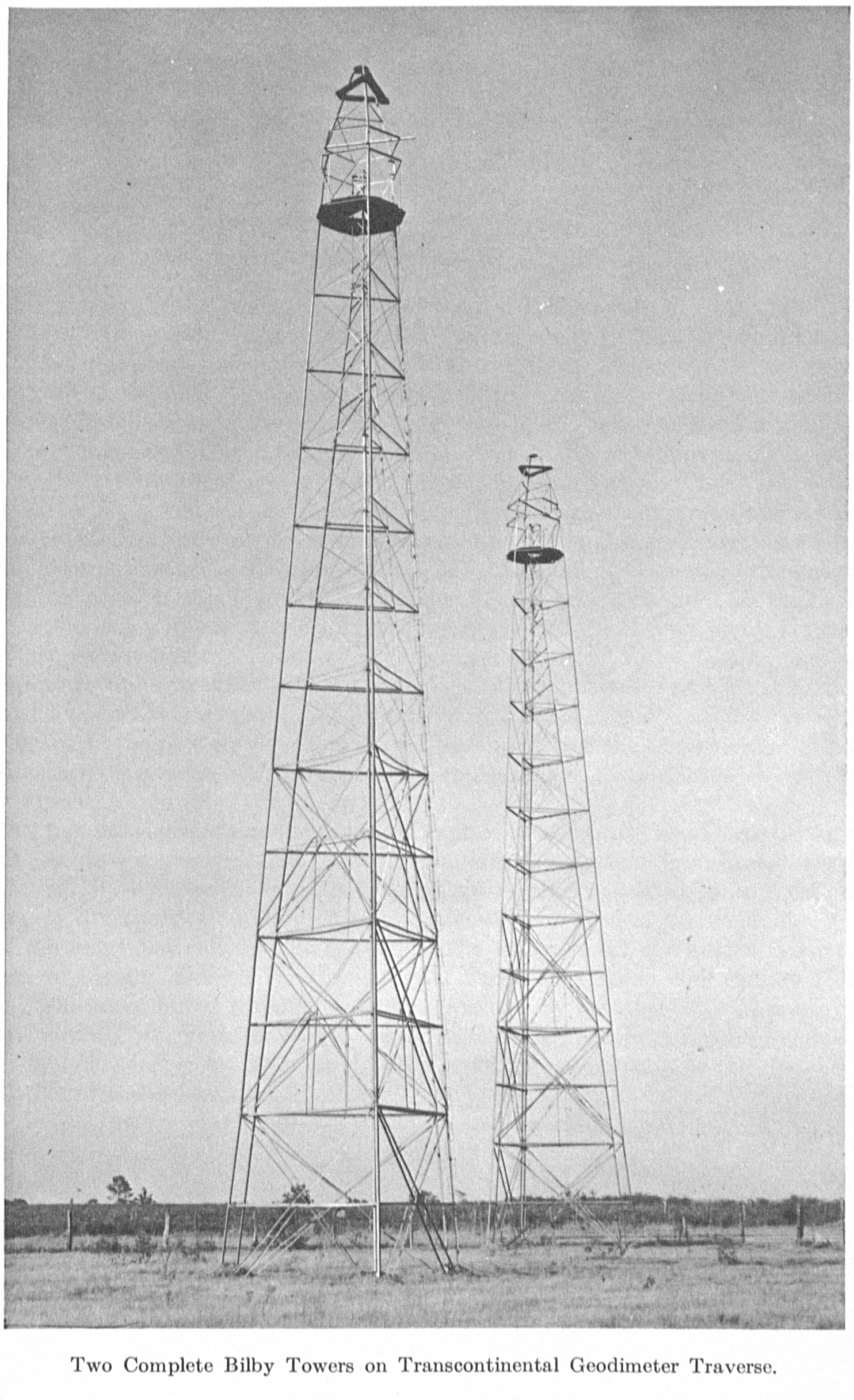 Two complete Bilby Towers on Transcontinental Geodimieter Traverse. (original image caption)